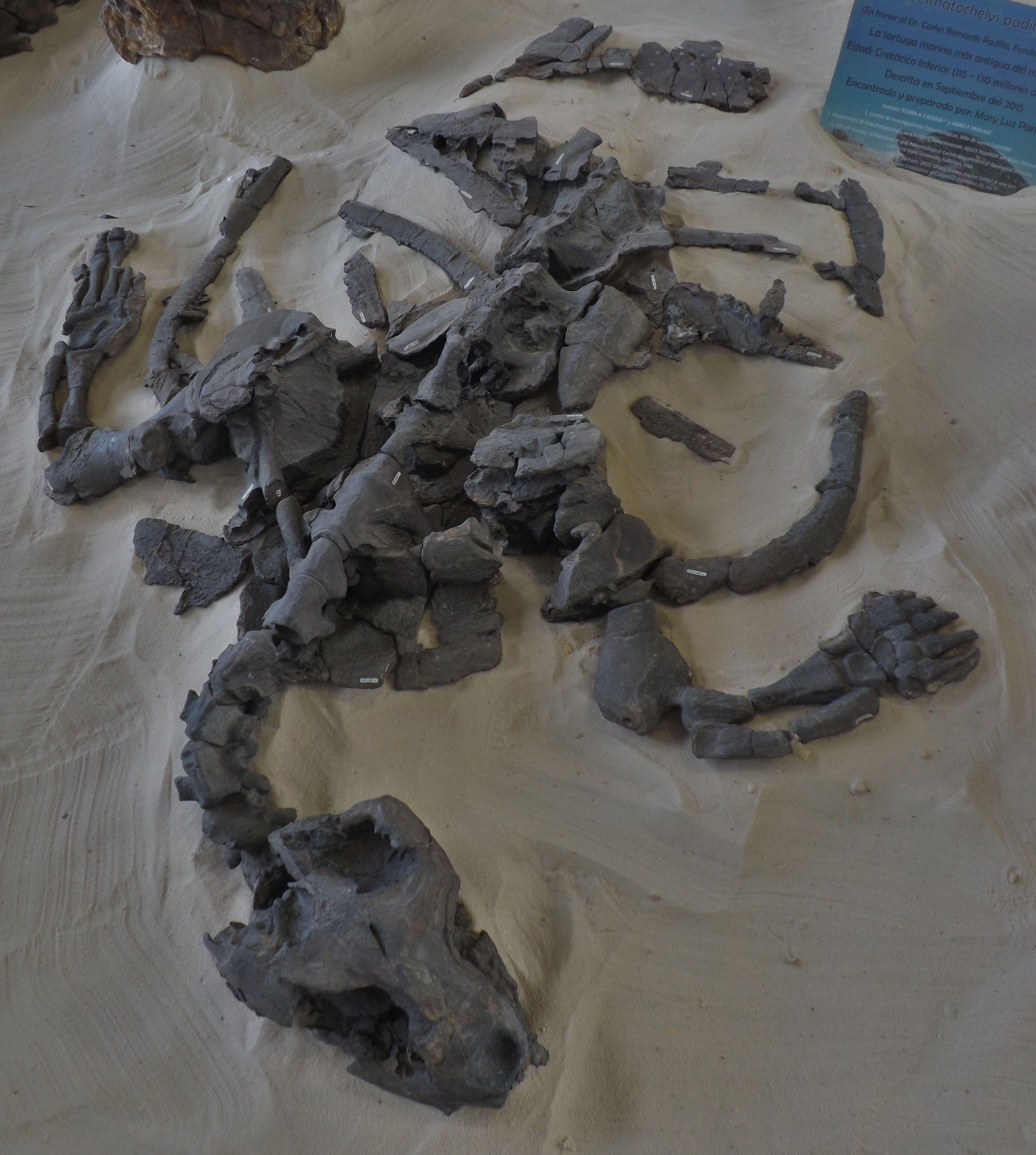 Some of the largest turtle fossils found in the world were discovered in this region. Centro de Investigaciones Paleontológicas - Villa de Leyva, Colombia.